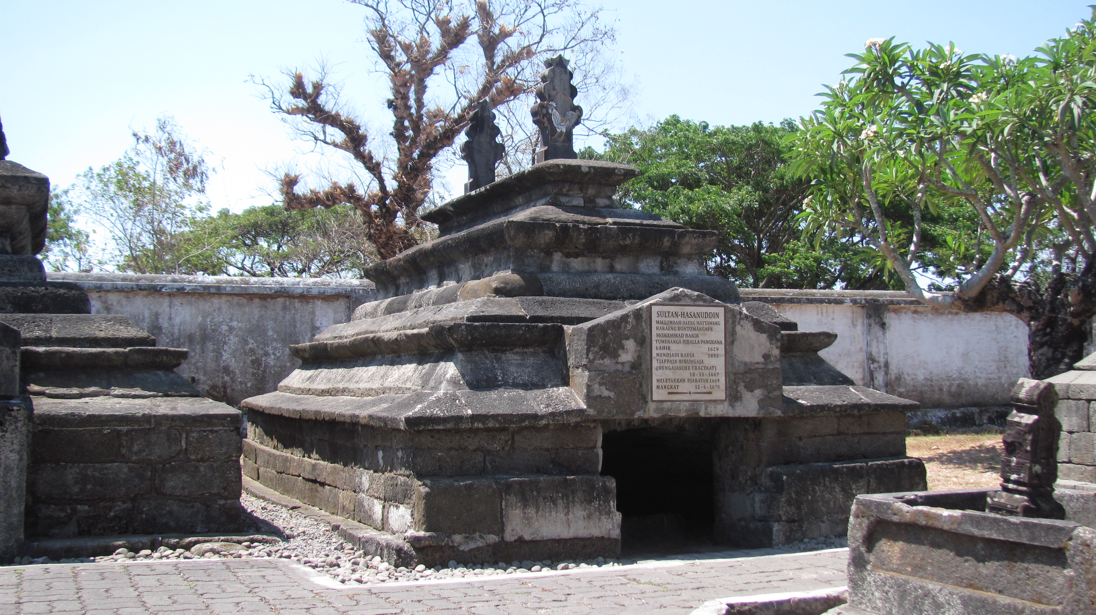 Grave of Sultan Hasanuddin, Sungguminasa, Sulawesi, Indonesia